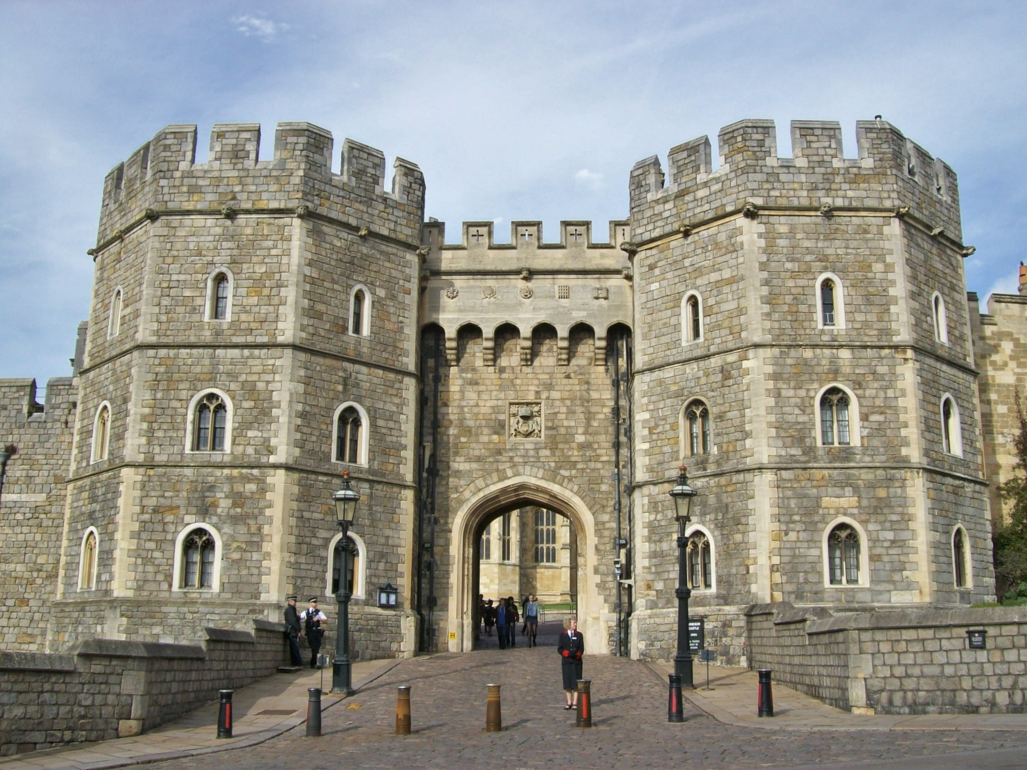 Henry VIII gate, Windsor Castle